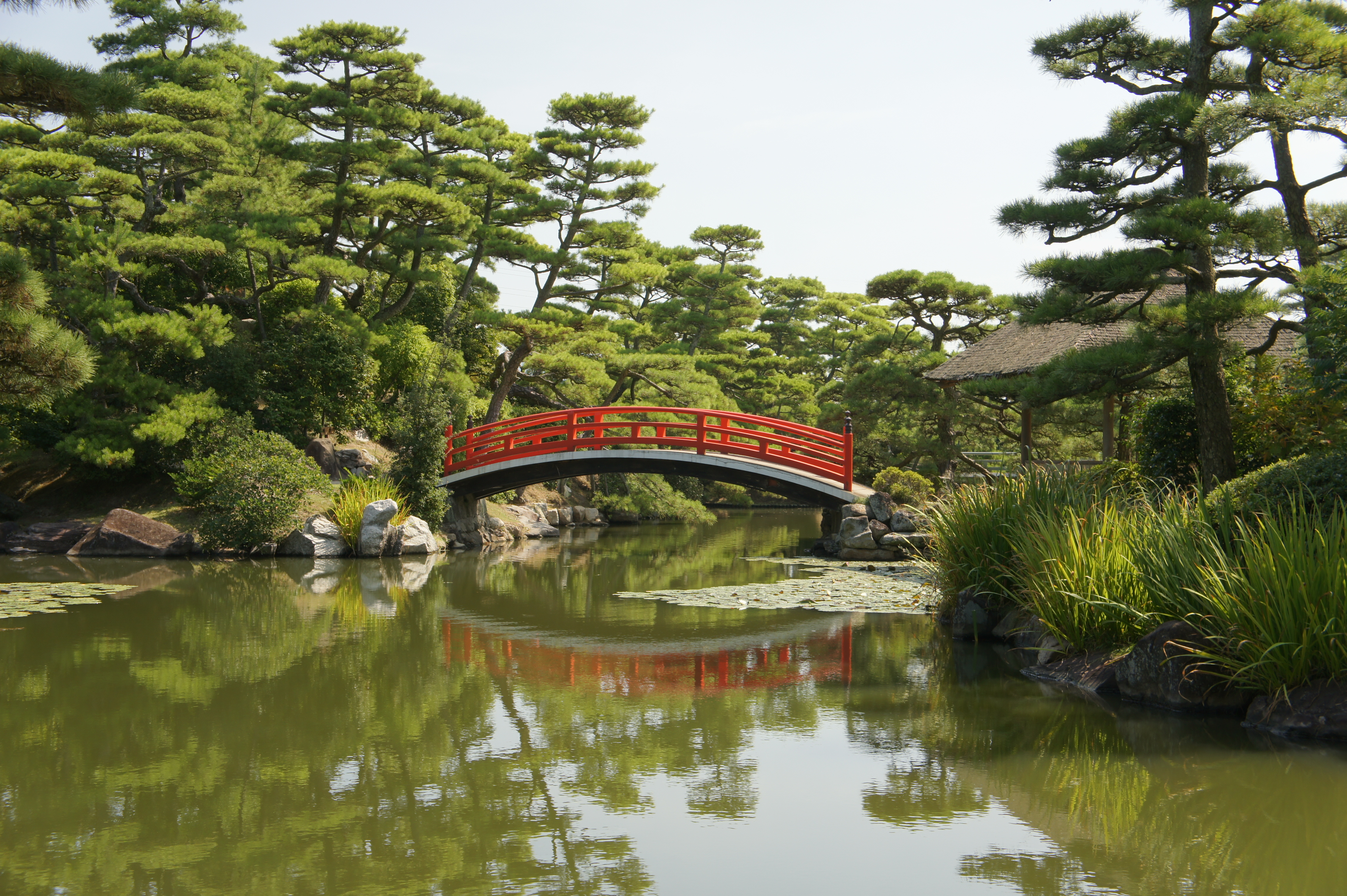 Nakatsu Banshoen Marugame Museum of Art in Marugame, Kagawa prefecture, Japan.